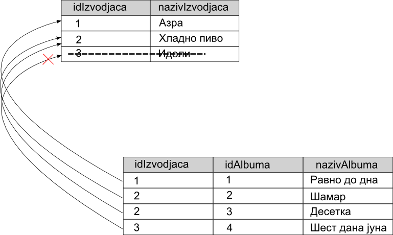 Broken referential integrity